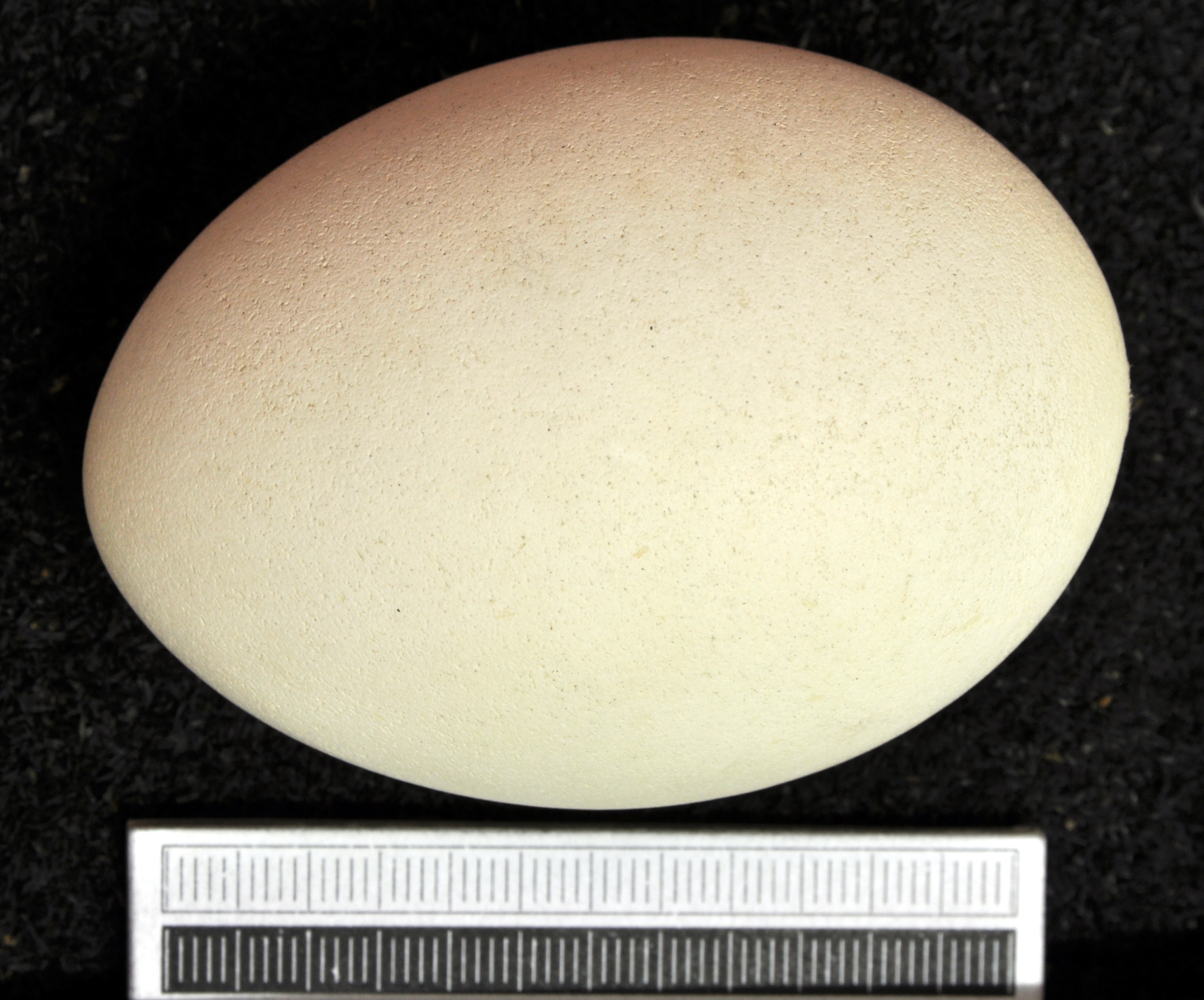 Northern fulmar Fulmarus glacialis , egg, Coll. Museum Wiesbaden